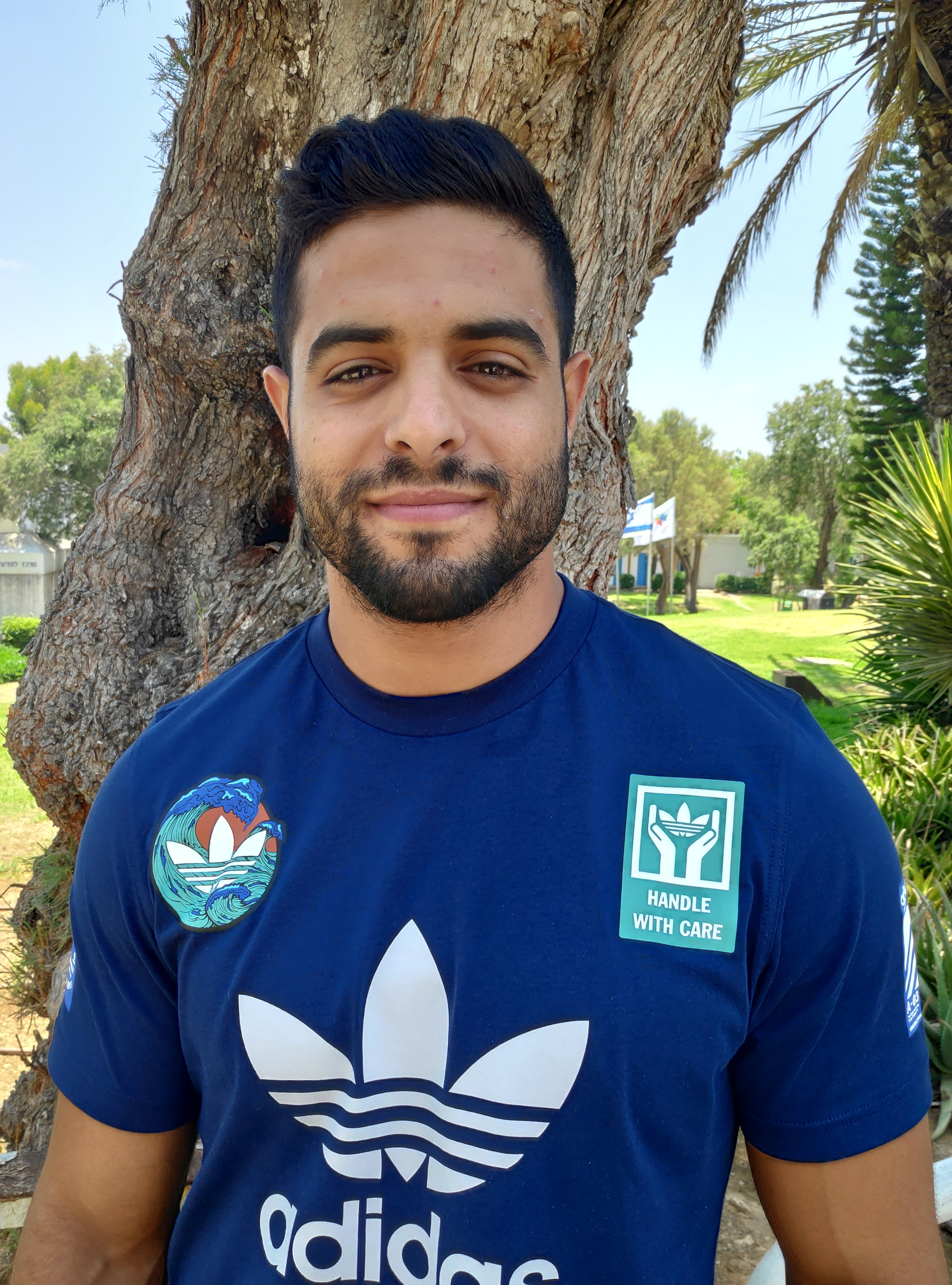 Sagi Muki, June 2019